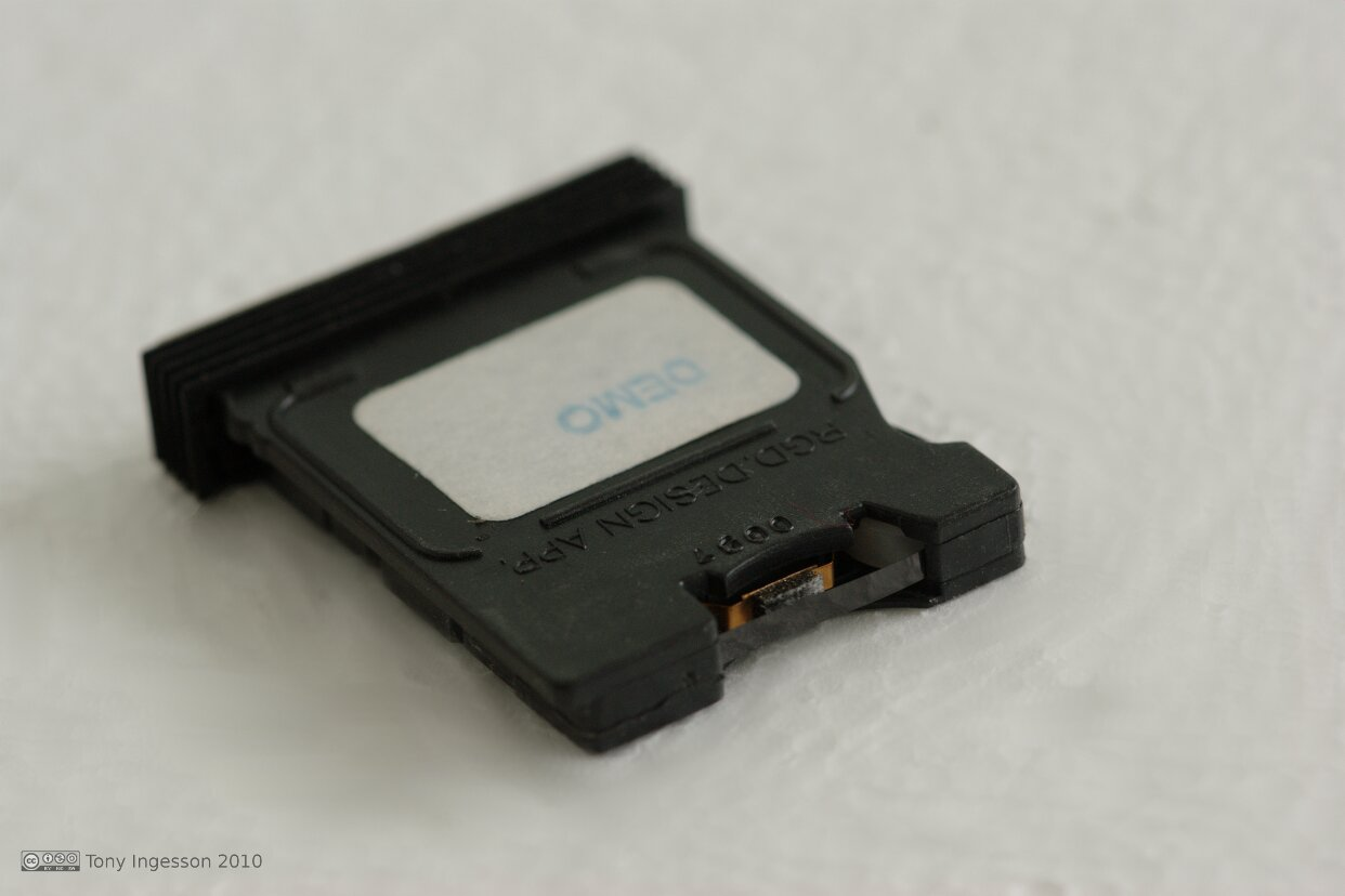 Microdrive cartridge for the Sinclair QL